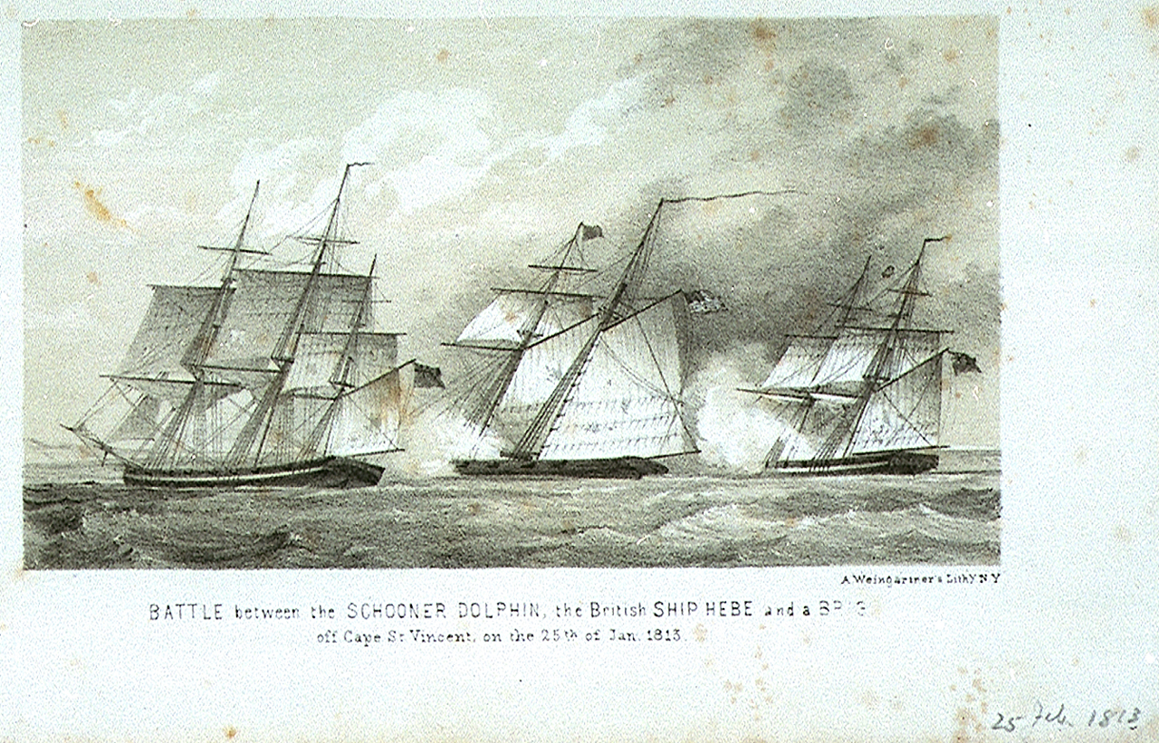 Acquatint of the engagement between the American privateer Dolphin and two British vessels